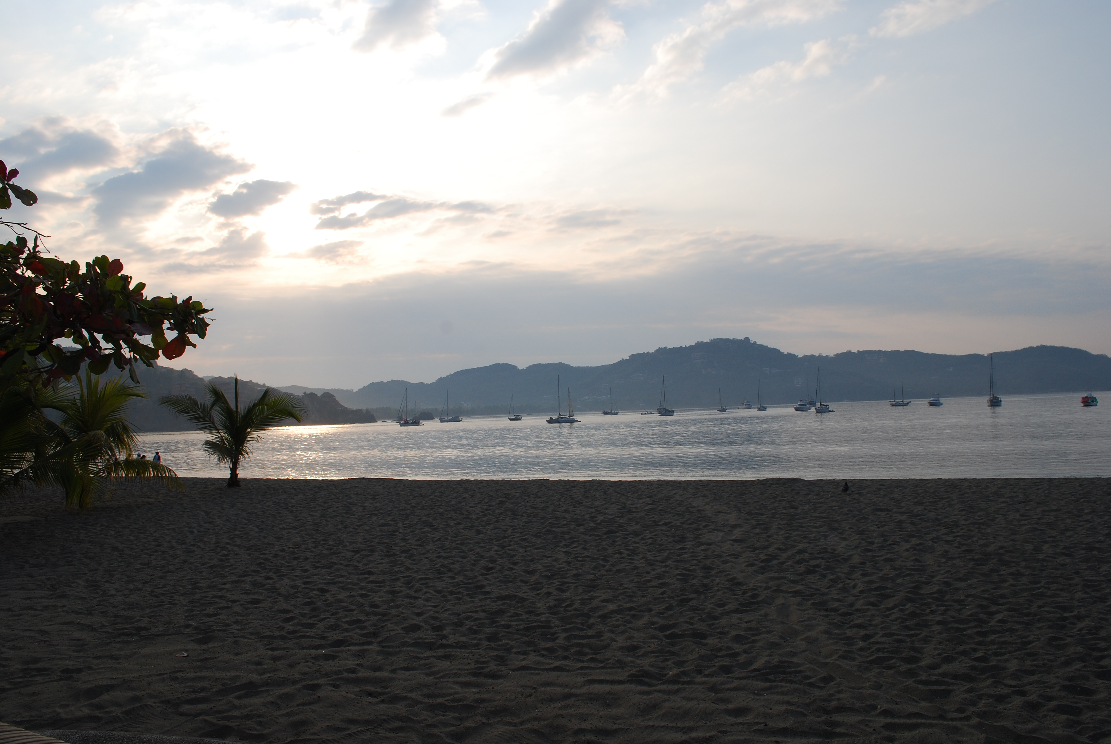 View of Zihuatanejo Bay from Playa Principal in Zihuatanejo, Mexico